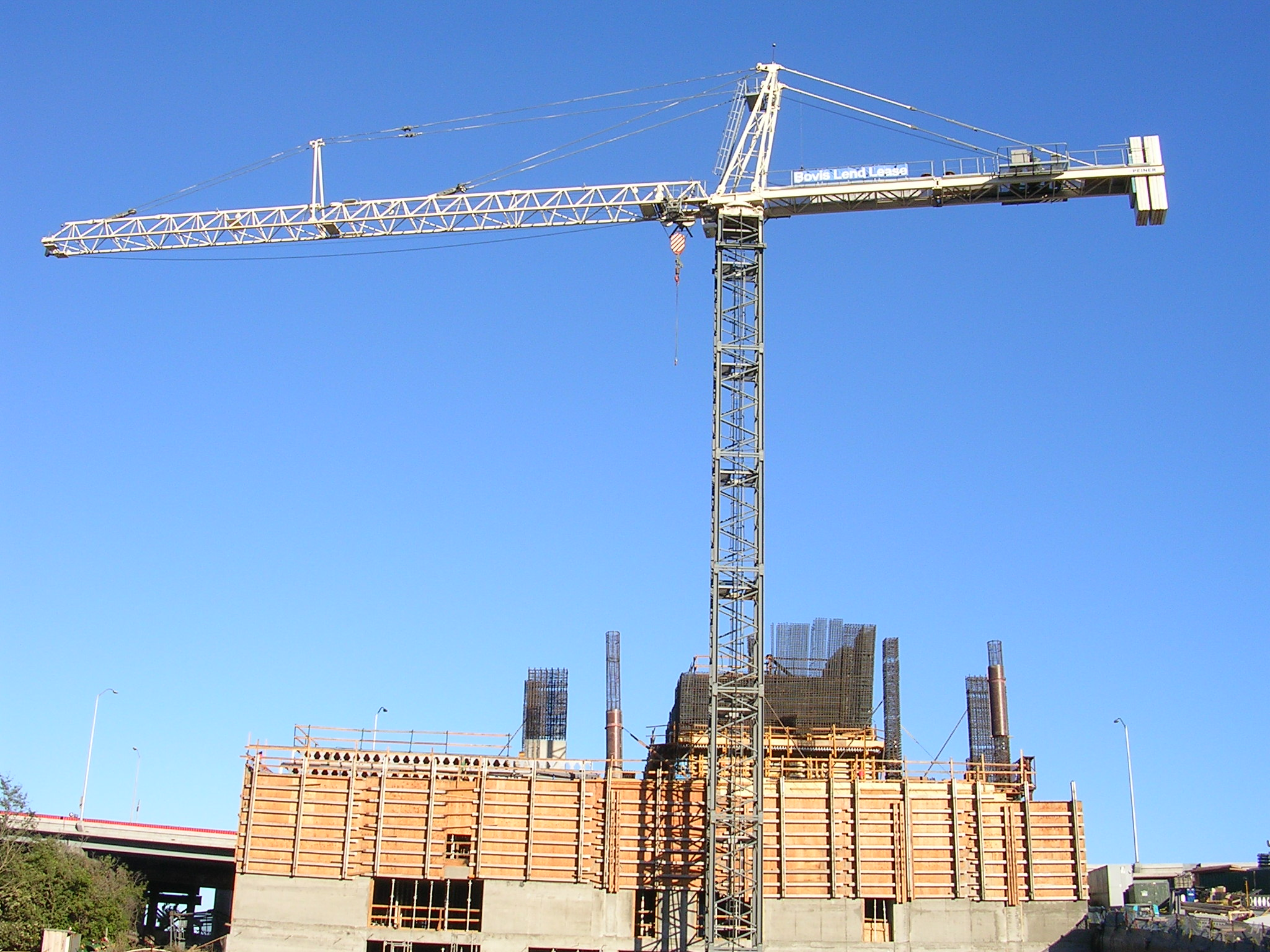 This is the One Rincon Hill South Tower in the early stages of construction and a tower crane.